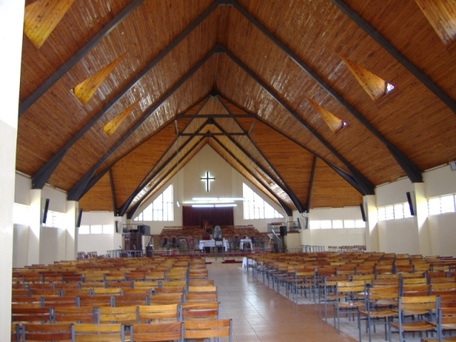 Inside view of St Pauls - Embu